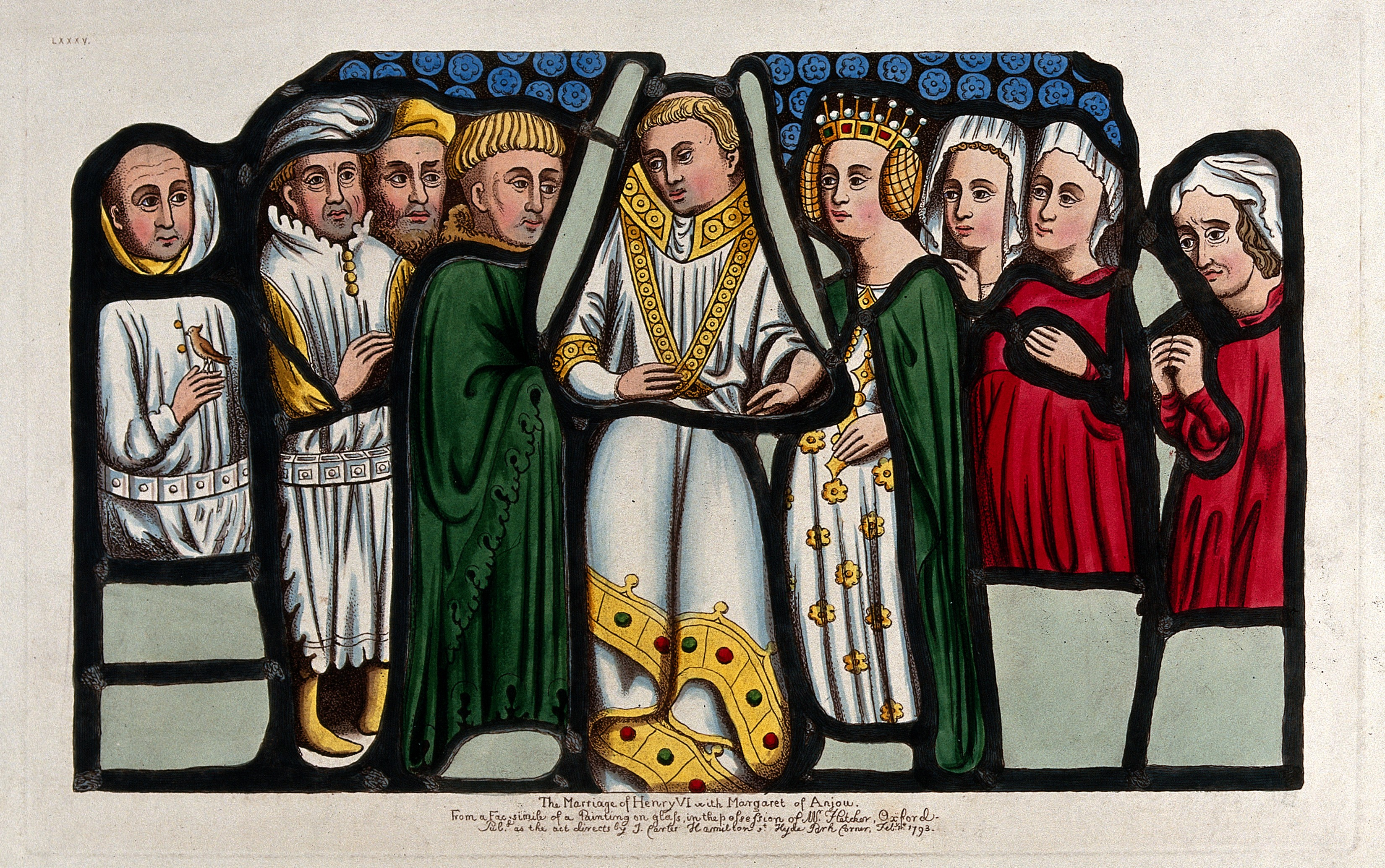 The marriage of Henry VI, King of England and Margaret of Anjou. Iconographic Collections Keywords: Wars of the Roses; Wedding